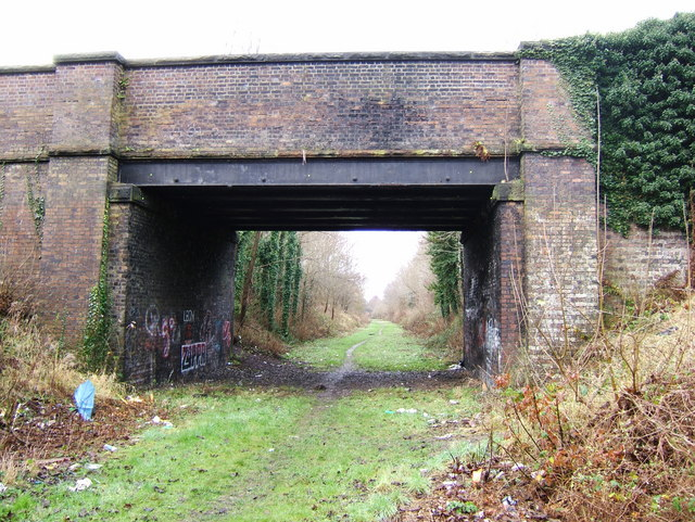 Mannings Lane South railway bridge This disused Great Central railway connected Chester's Northgate Station to Liverpool & Manchester, via the connection to the main line at Mickle Trafford.